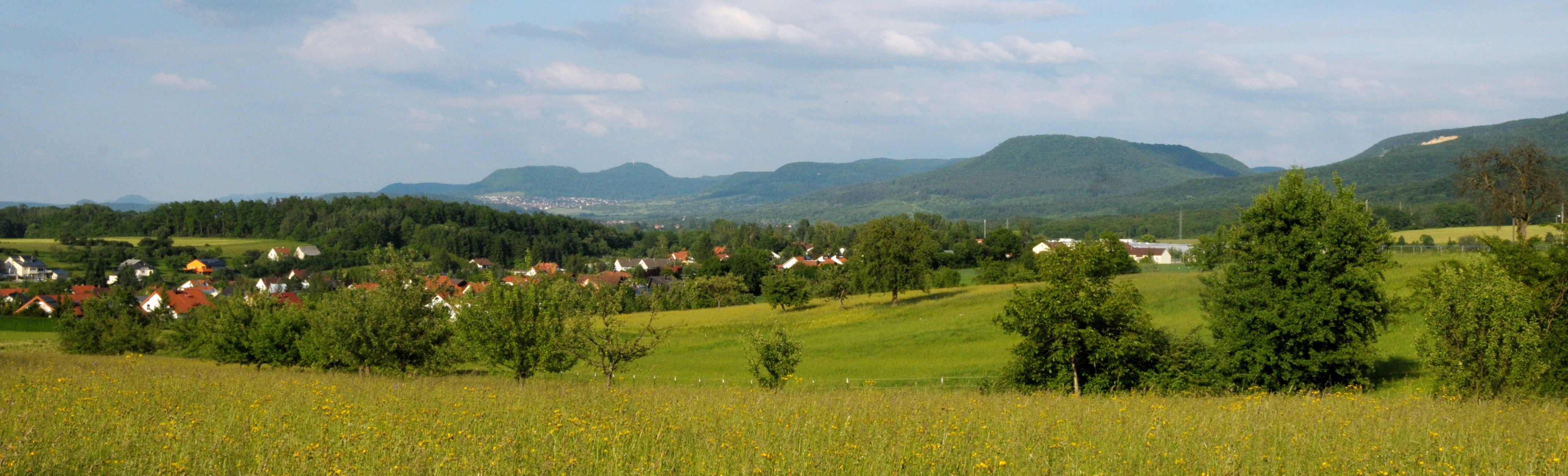 Bodelshausen from Sickingen